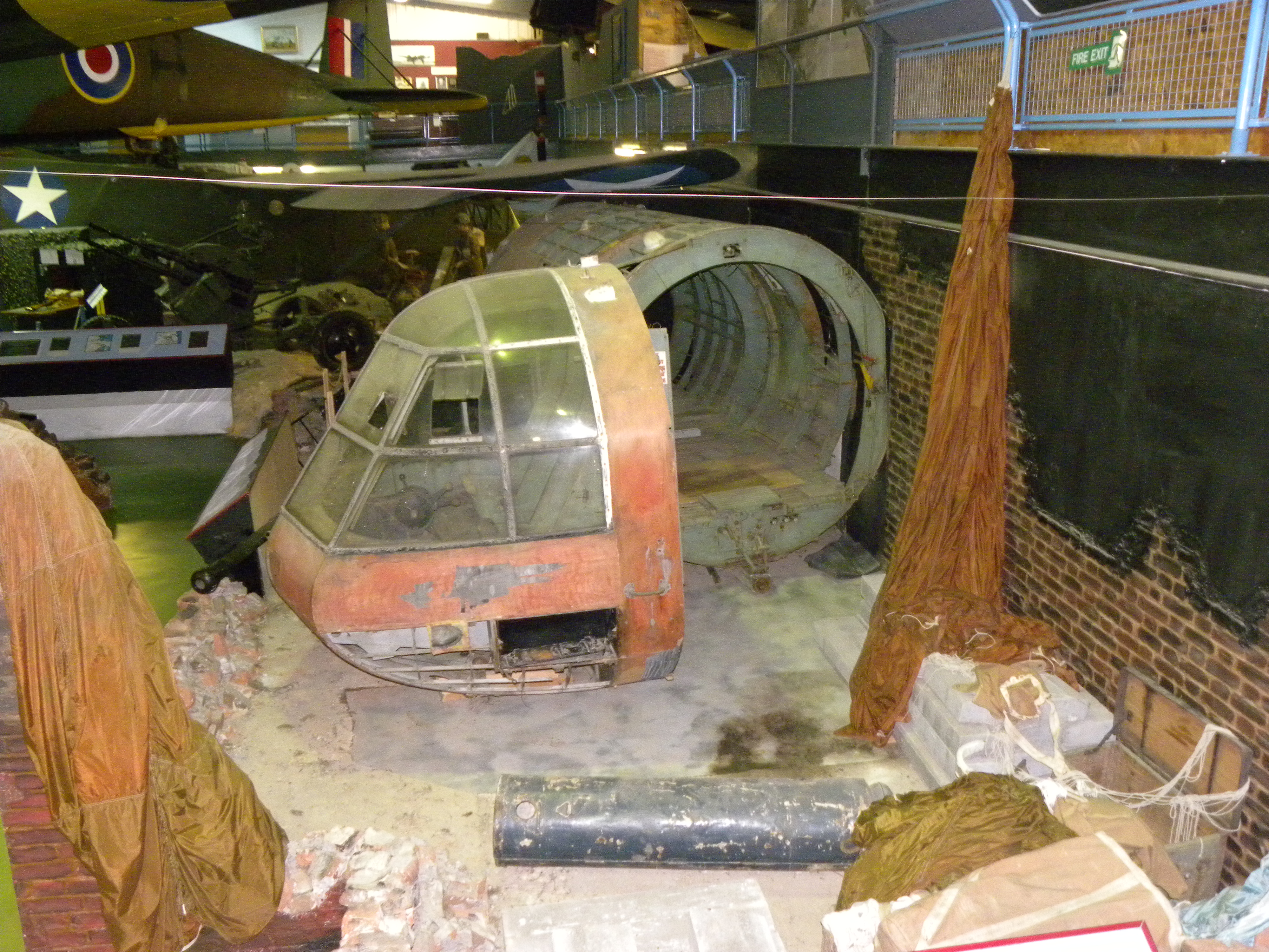 Museum of Army Flying, Middle Wallop